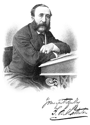 Frederick Balsir Chatterton (1834-1886) - theatre manager and impresario - scanned from an engraving in my collection